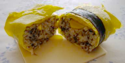 This is a picture which I took. 茶巾寿司(Cha-Kin Sushi)